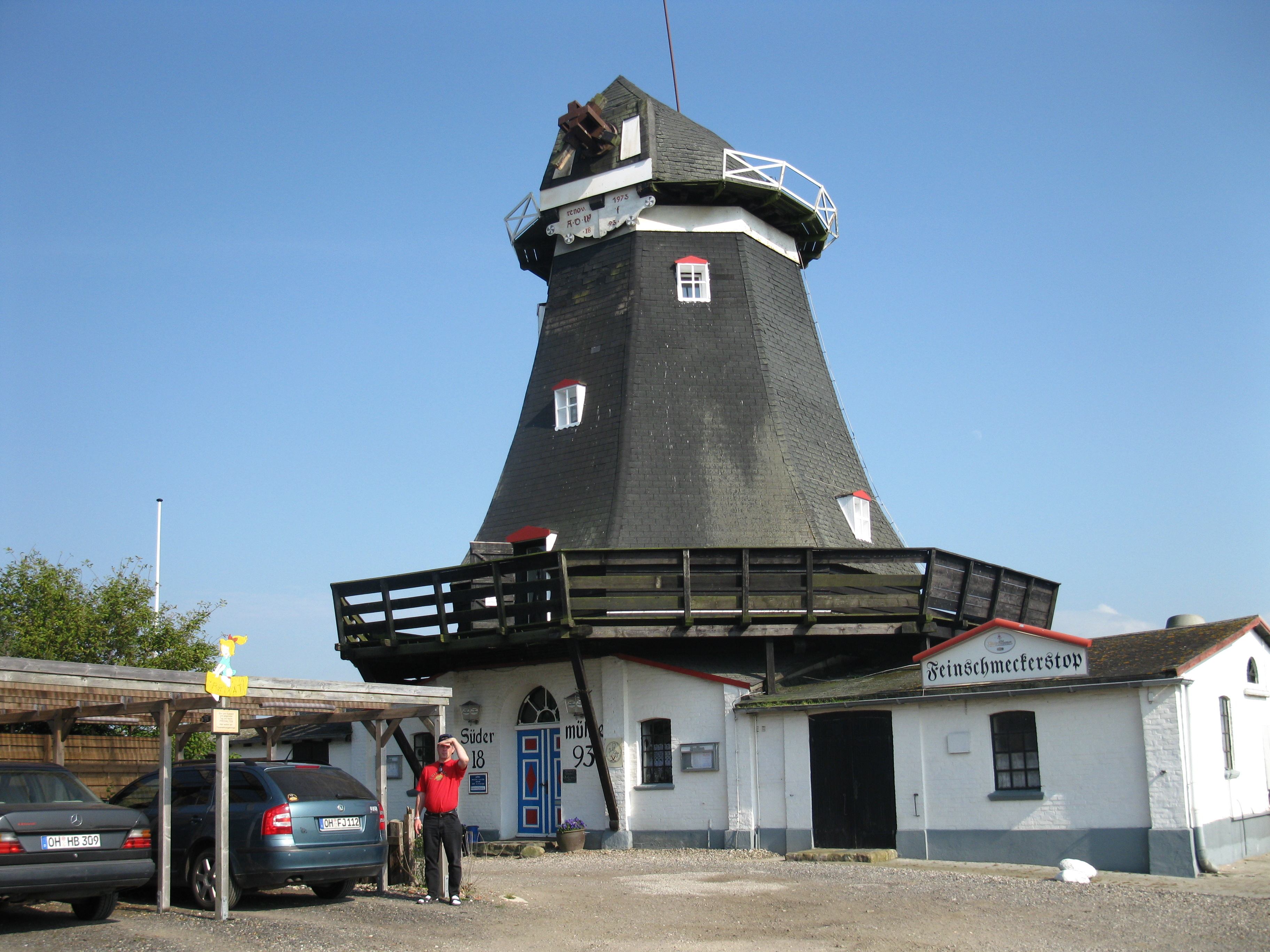 Windmill, Petersdorf, Fehmarn